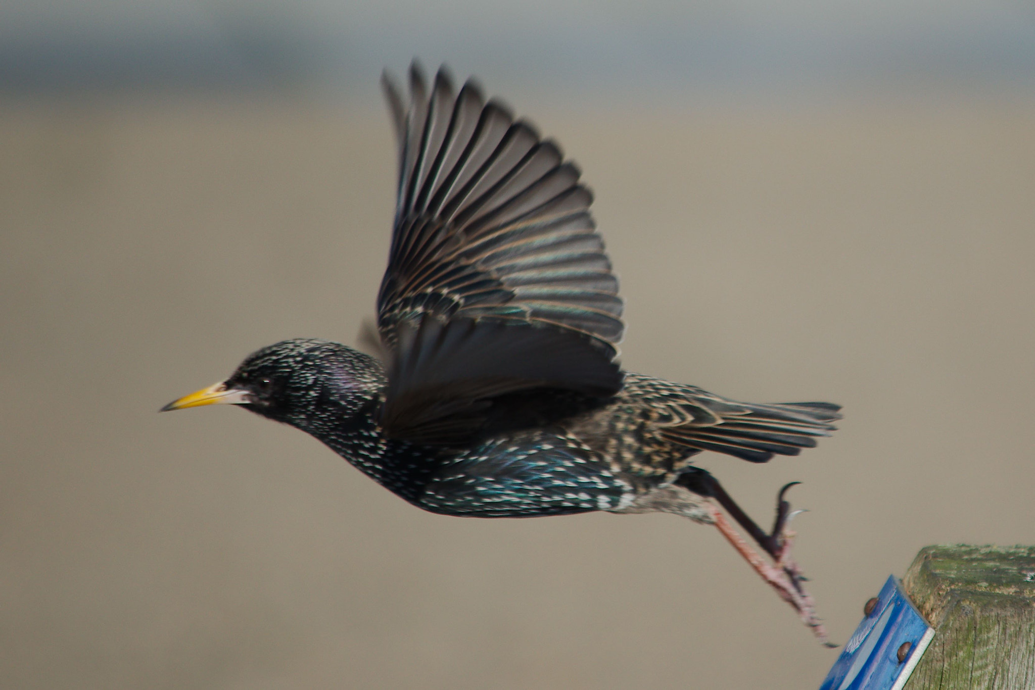 500px provided description: Starling [#bird ,#England ,#Starling ,#Blyth]